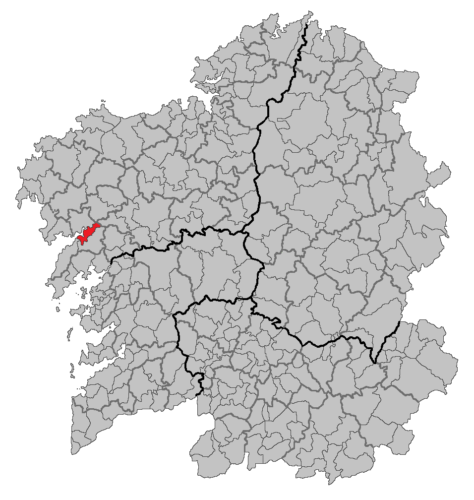 Location map of Noia, A Coruña, Galicia